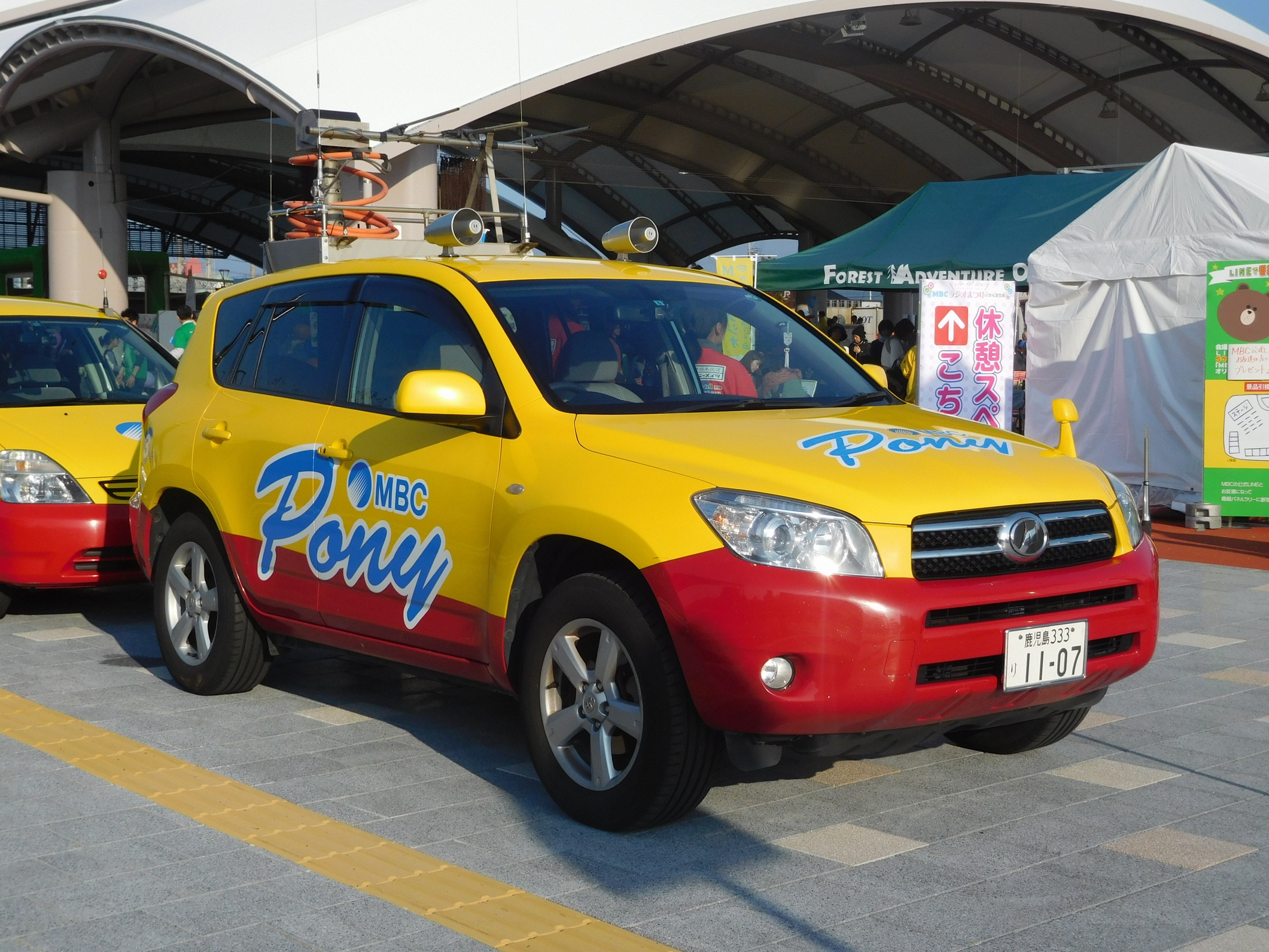 MBC Minaminihon Broadcasting Radio Car "PONY" 3rd in 2016